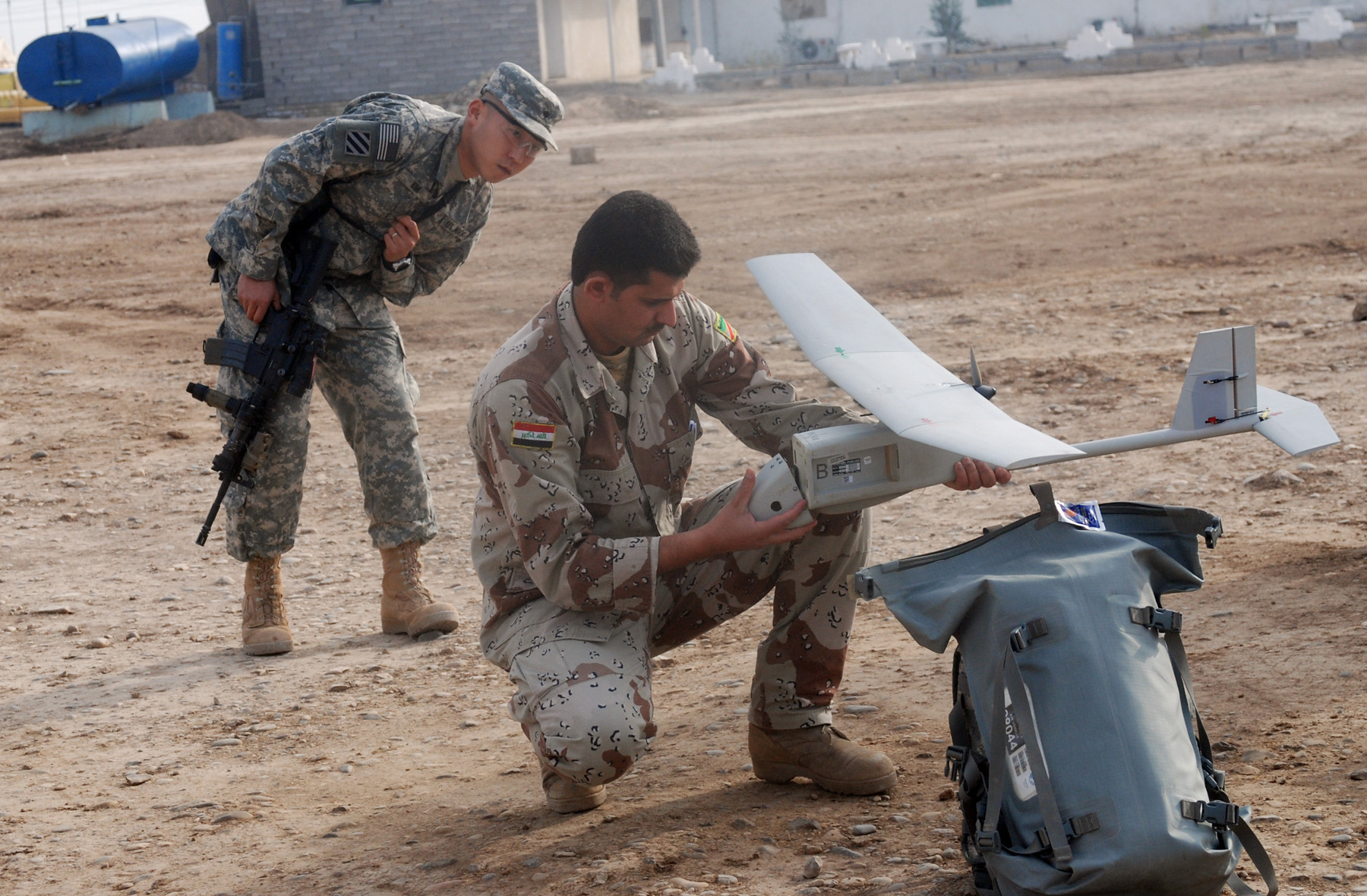 Spc. Sam Kim from C Troop, 3rd Squadron, 1st Cavalry Regiment, watches as an Iraqi Army Soldier assembles the RQ-11 Raven miniature unmanned aerial vehicle at the Iraqi Army's 3rd Battalion, 32nd Brigade compound in Wasit Province, Iraq, Feb. 16, 2010. The Iraqi Soldiers are trained on how to assemble and operate the MUAV to support operations in the field.